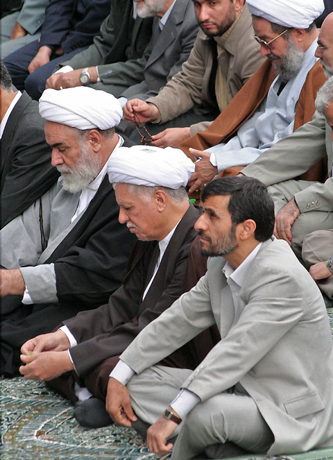 Golpaygani, Akbar Hashemi Rafsanjani and Mahmoud Ahmadinejad in a Eid al-Fitr prayer of 24 October 2006/1 Shawwal 1427.